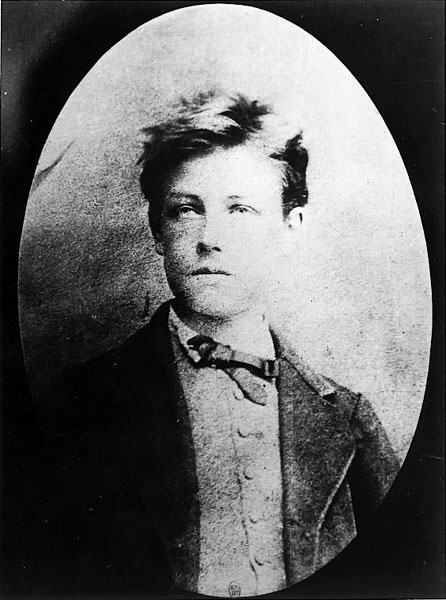 Étienne Carjat, Portrait of Arthur Rimbaud at the age of seventeen, c. 1872